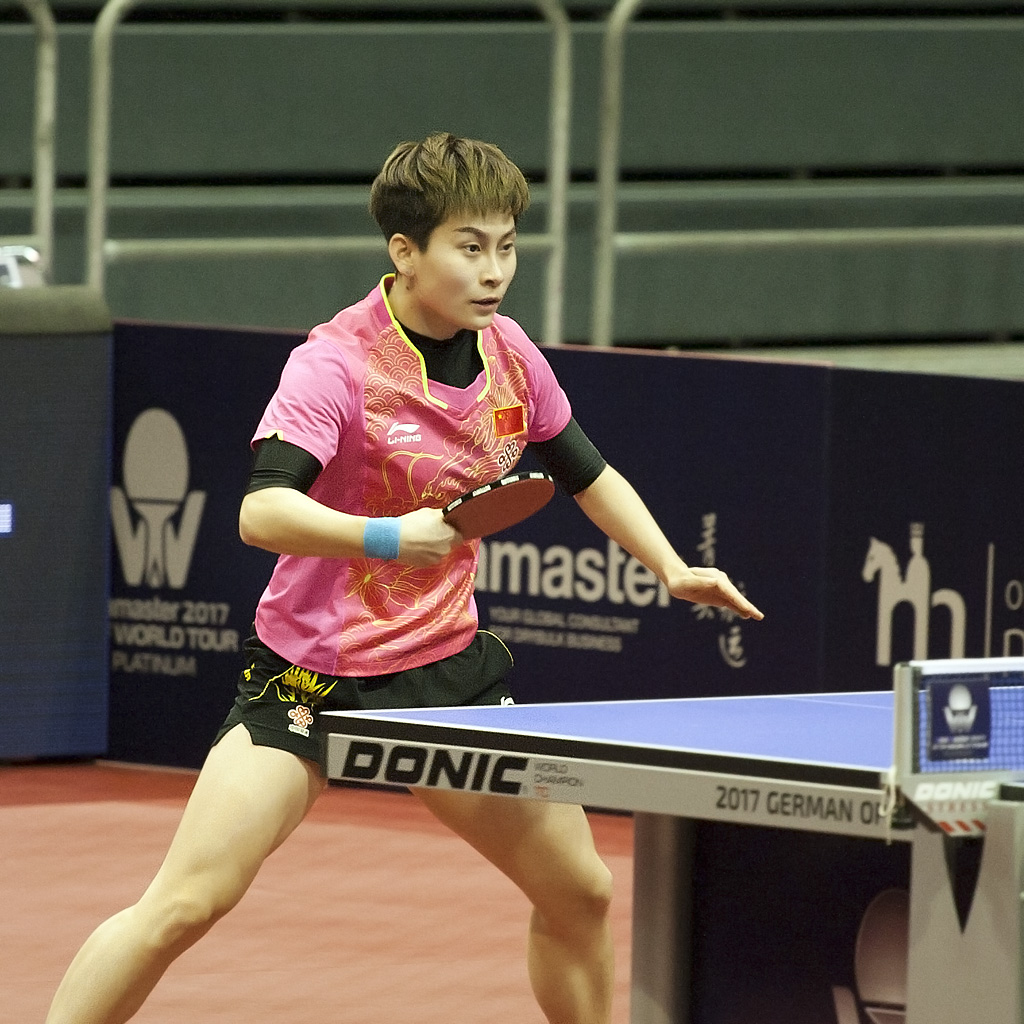 ITTF World Tour 2017 German Open, Magdeburg, Germany, 7 Nov 2017 - 12 Nov 2017, Feng Yalan